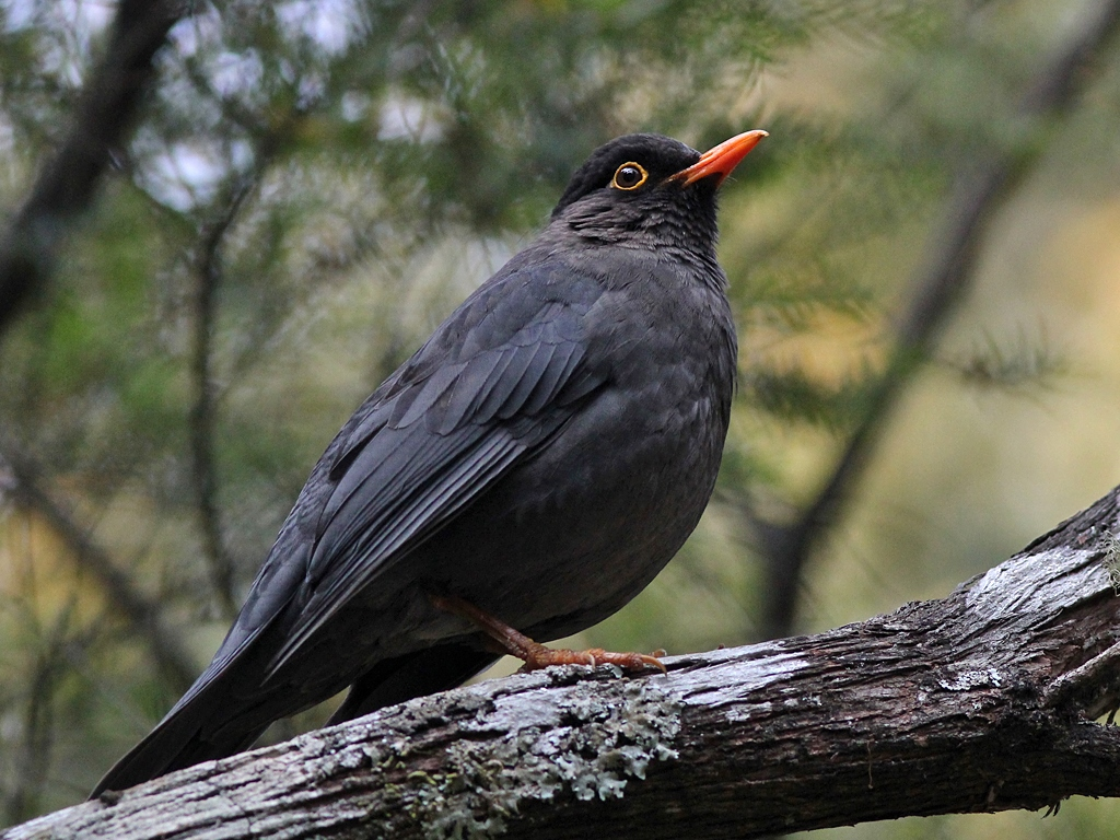 Clicked at the Botanical Gardens in Ooty, the beautiful and popular hill station located in the Nilgiri Hills.This is a male as distinguished by its black plumage and yellow eye-ring and bill. If you look closely you can see that its head is darker than the body. It also has a rich melodious song. Both sexes are territorial on the breeding grounds, with distinctive threat displays, but are more gregarious during migration and in wintering areas.